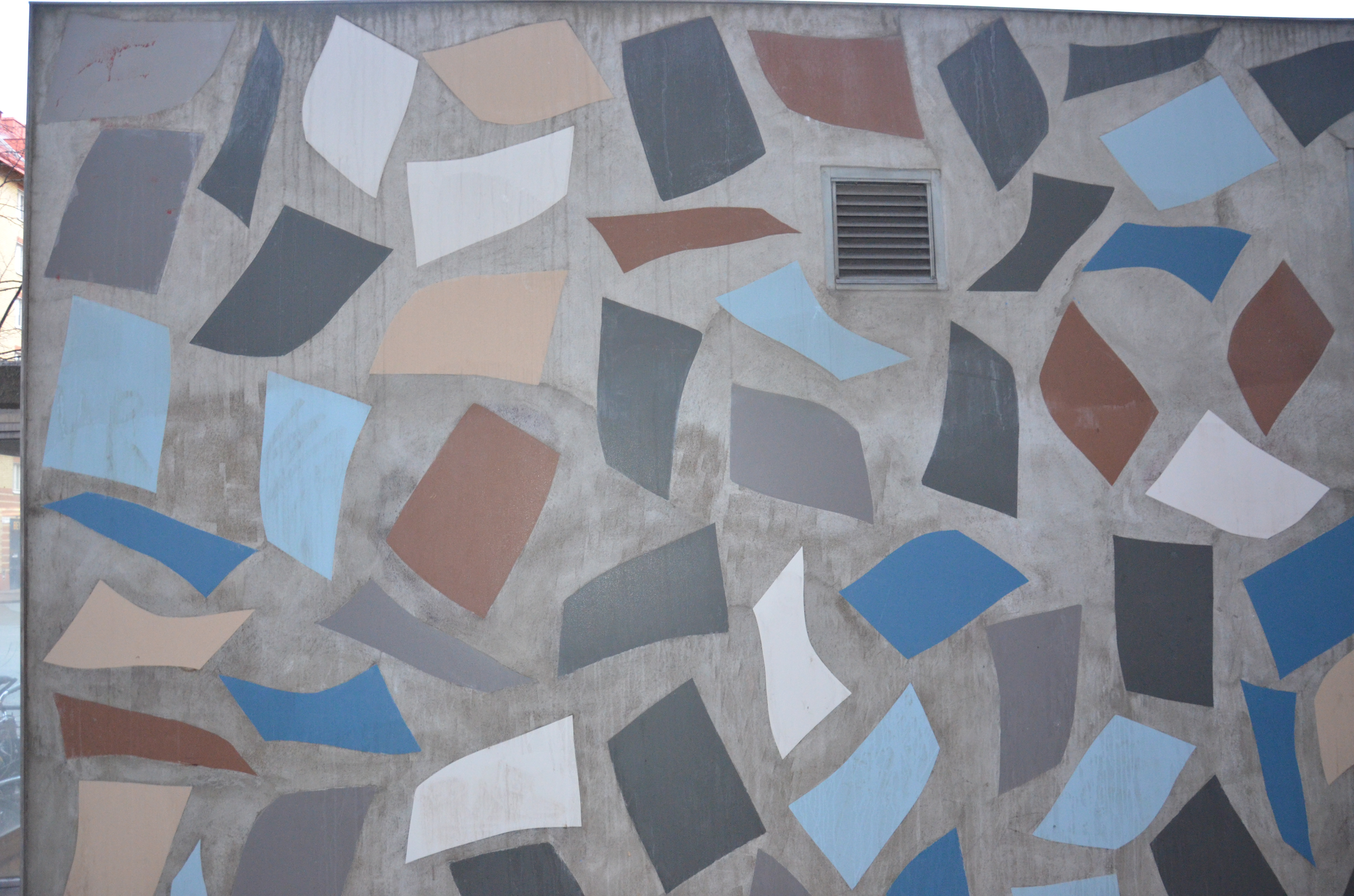 Entrance to Metro station Zinkensdamm, Stockholm, on Ringvägen. Art work by John Stenborg.